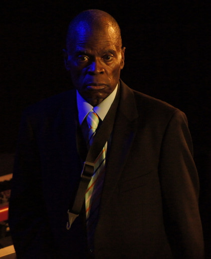 Maceo Parker performing in Ljubljana, Slovenia